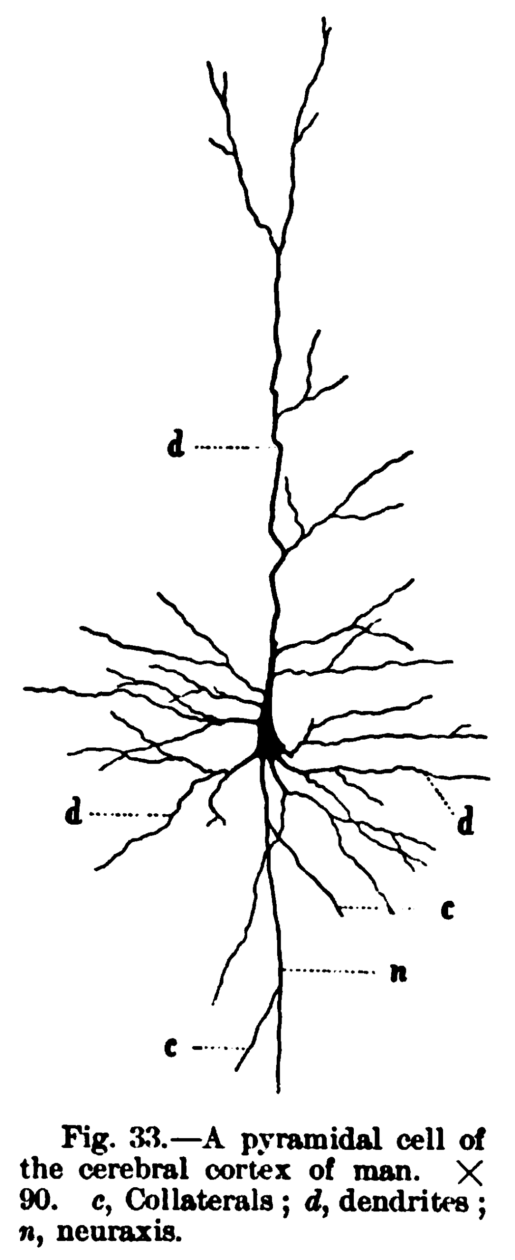 A pyramidal cell in the human cortex, from the 1903 edition of Sobotta's histology